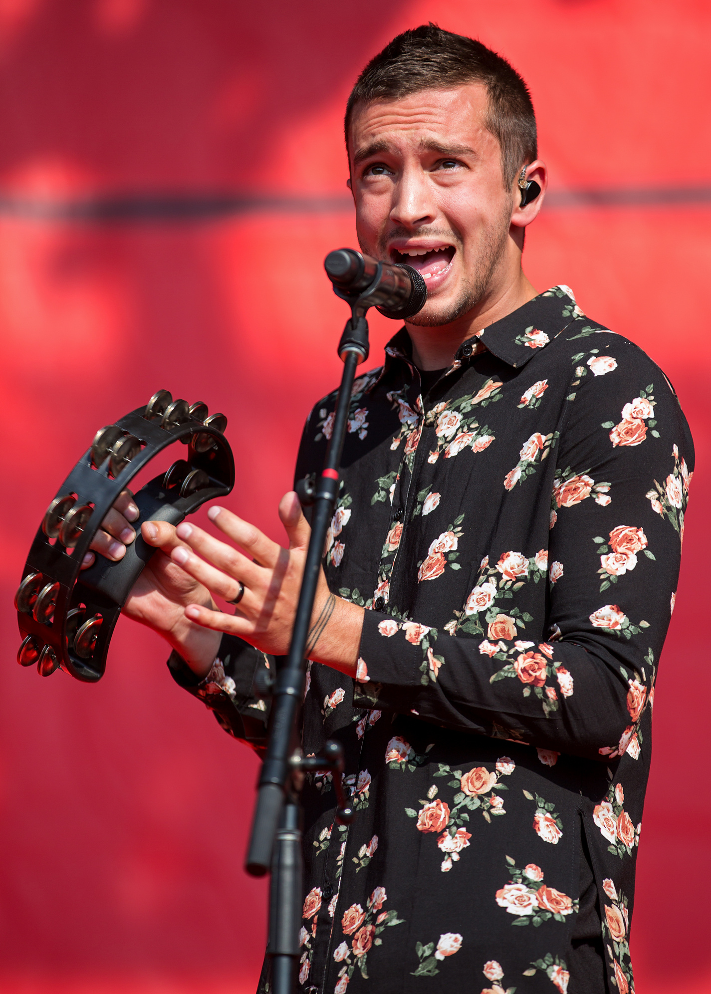 Tyler Joseph of Twenty One Pilots performing at Austin City Limits Music Festival on October 10, 2015 in Austin, Texas.